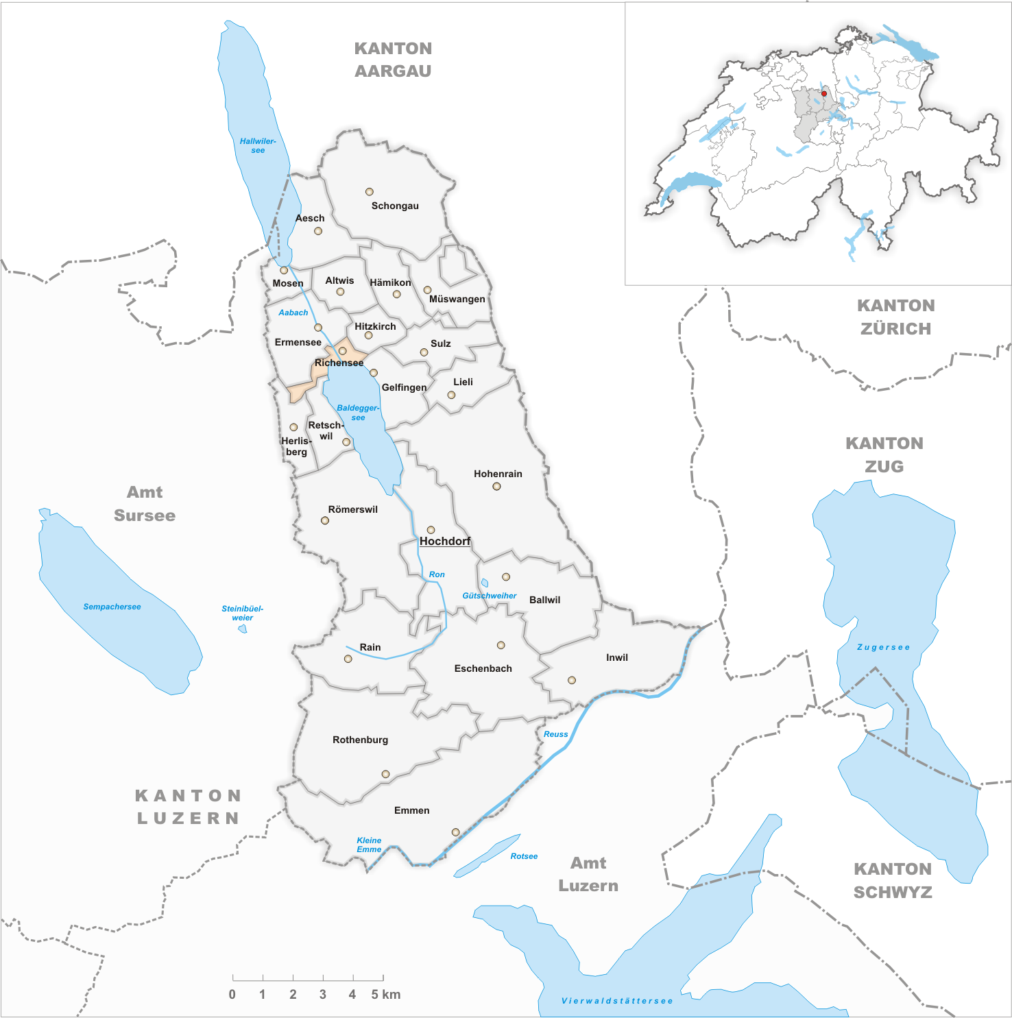 Municipality Richensee Artist: Tschubby